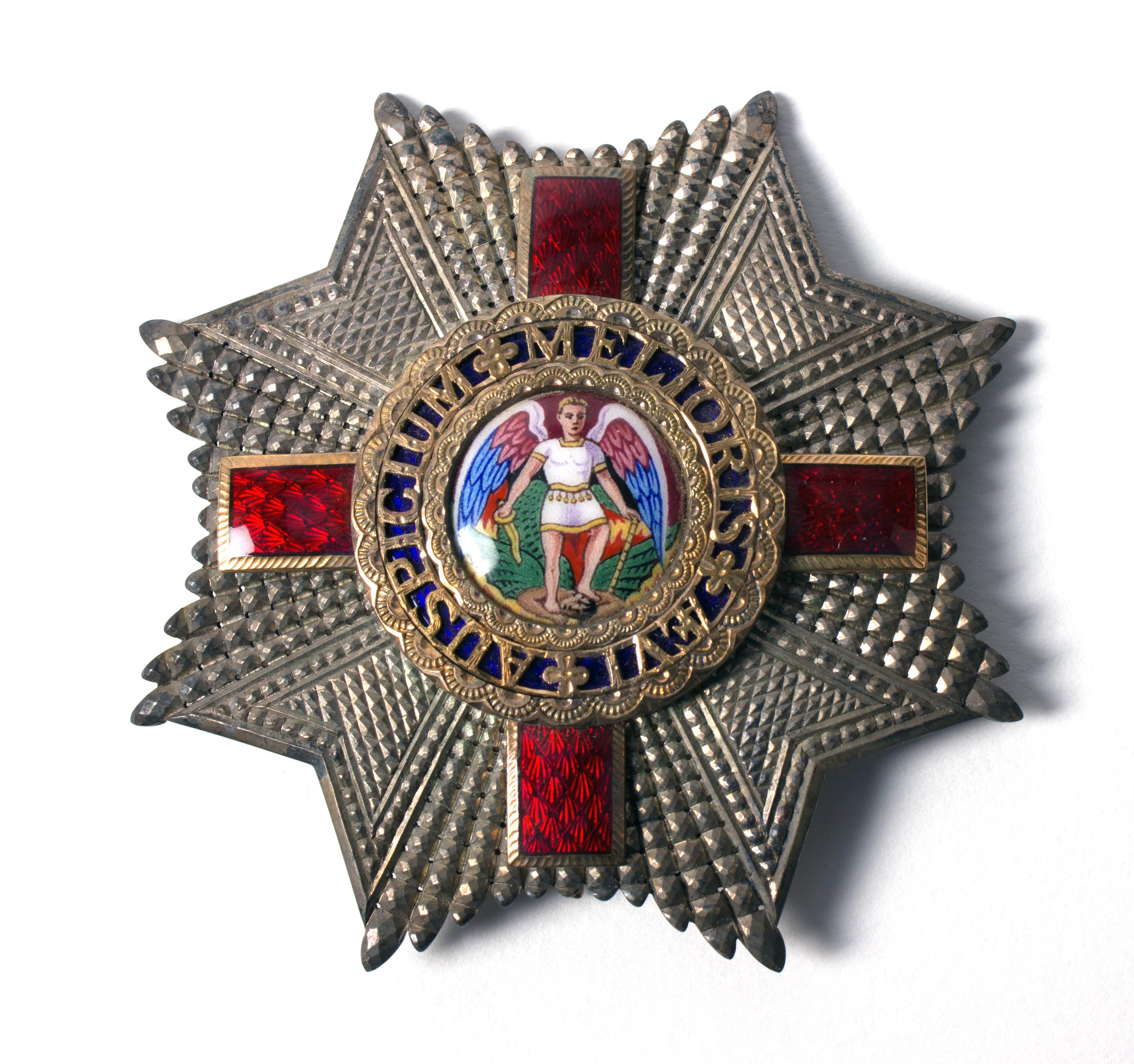 Knight Commander of the Most Distinguished Order of St Michael and St George (KCMG) conferred upon the Honourable Harold Eric Barrowclough KCMG, CB, DSO and Bar, MC, ED - Chief Justice. Comprises- Star, neck badge with ribbon, original box of issue and orginal information sheet, spare ribbon and attachment.